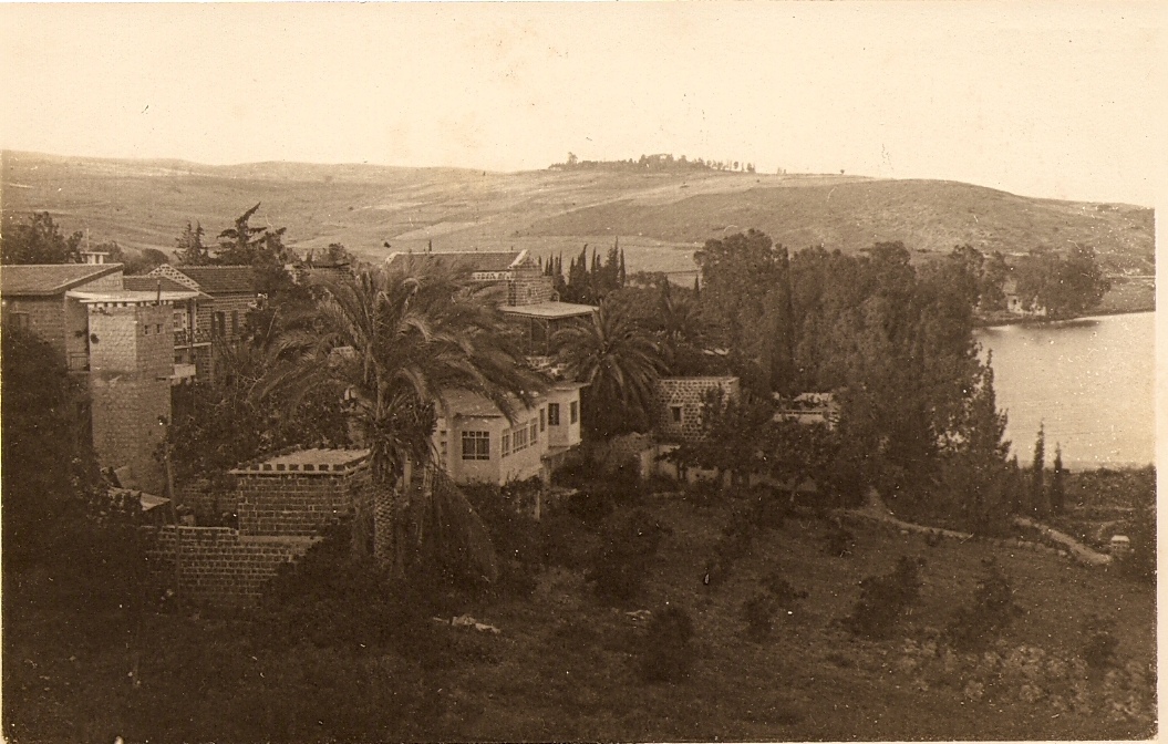 Ain Tabgha German Hospice